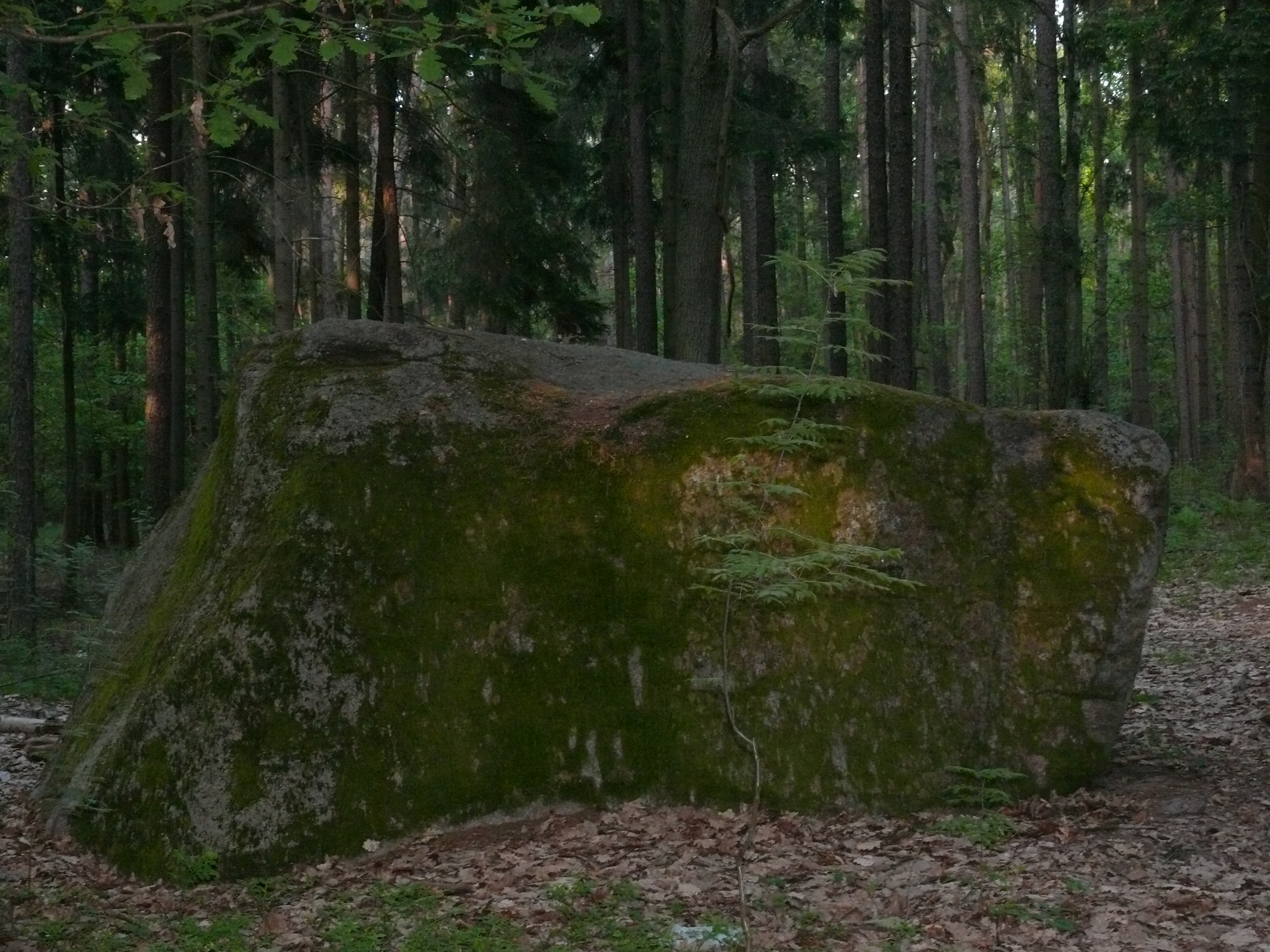 Nature reserve Jodłowice